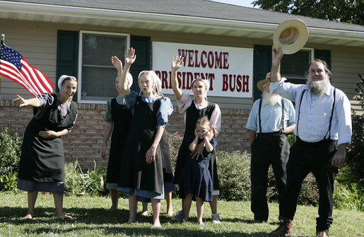 A group of Amish and Mennonite residents wave to President George W. Bush in Lancaster, Pa., upon his arrival aboard Marine One.